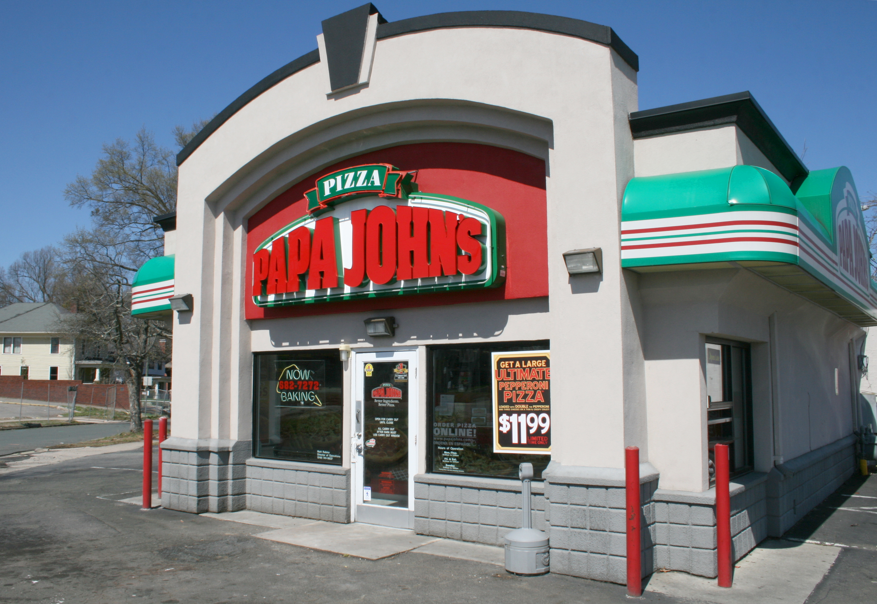 Papa John's Pizza #639 at 1018 West Main Street in Durham, North Carolina.